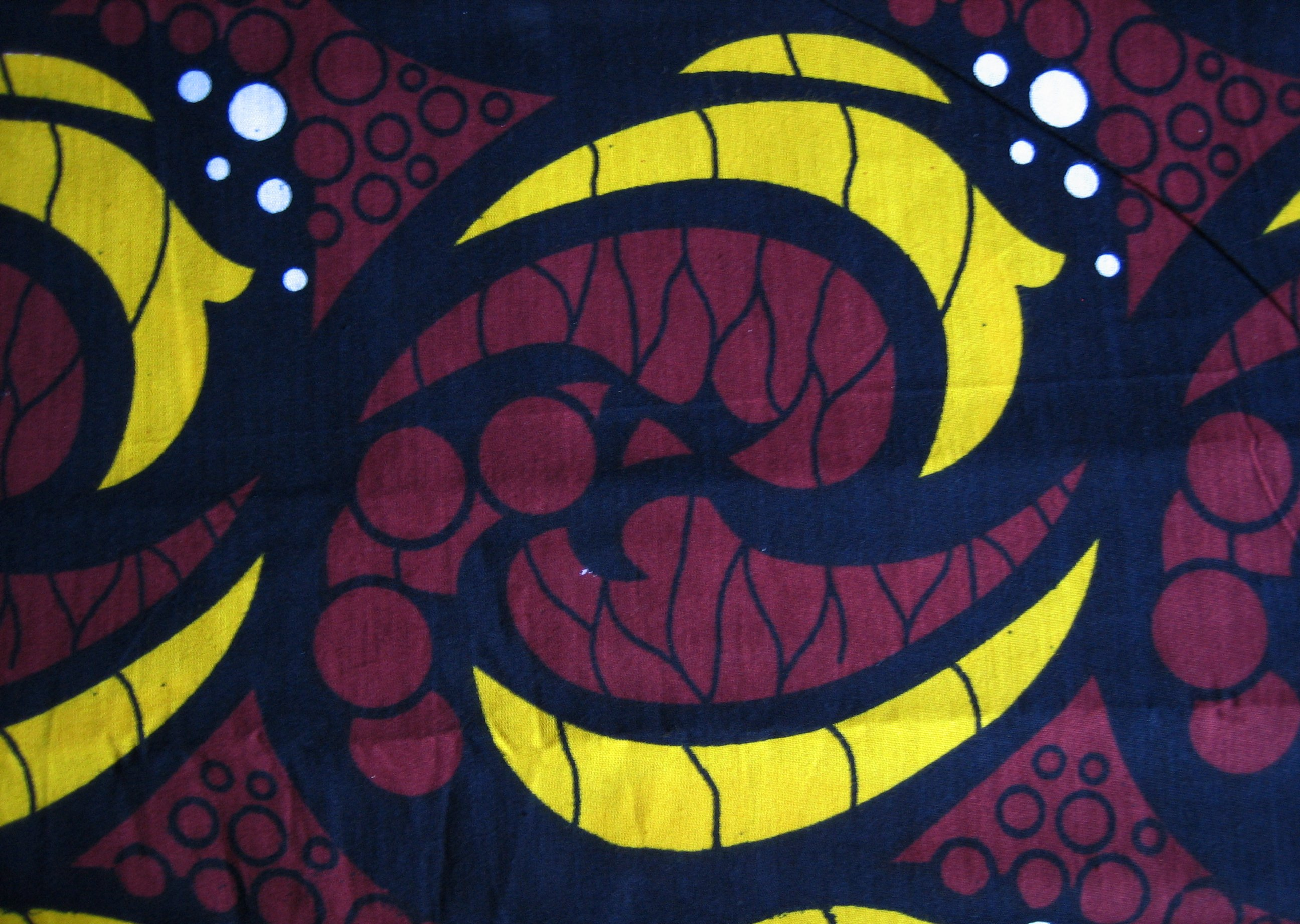 Kitenge, a traditional cloth worn by Swahili women